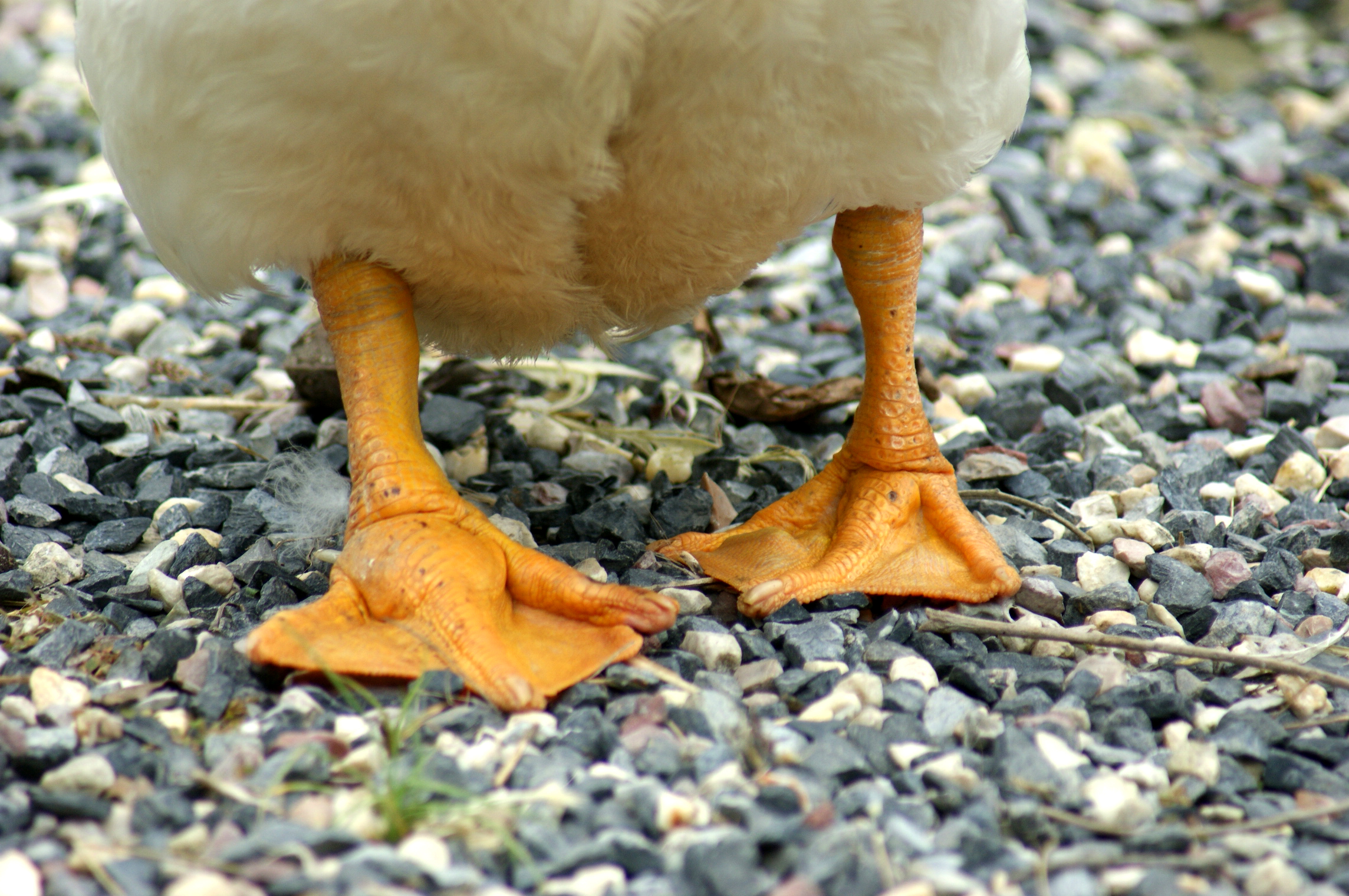 Leg Of White Duck.